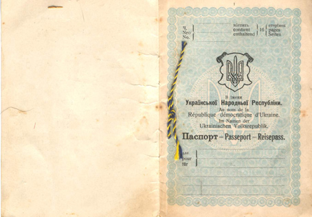 Passport of citizen of Ukrainian People's Republic. Page 1.